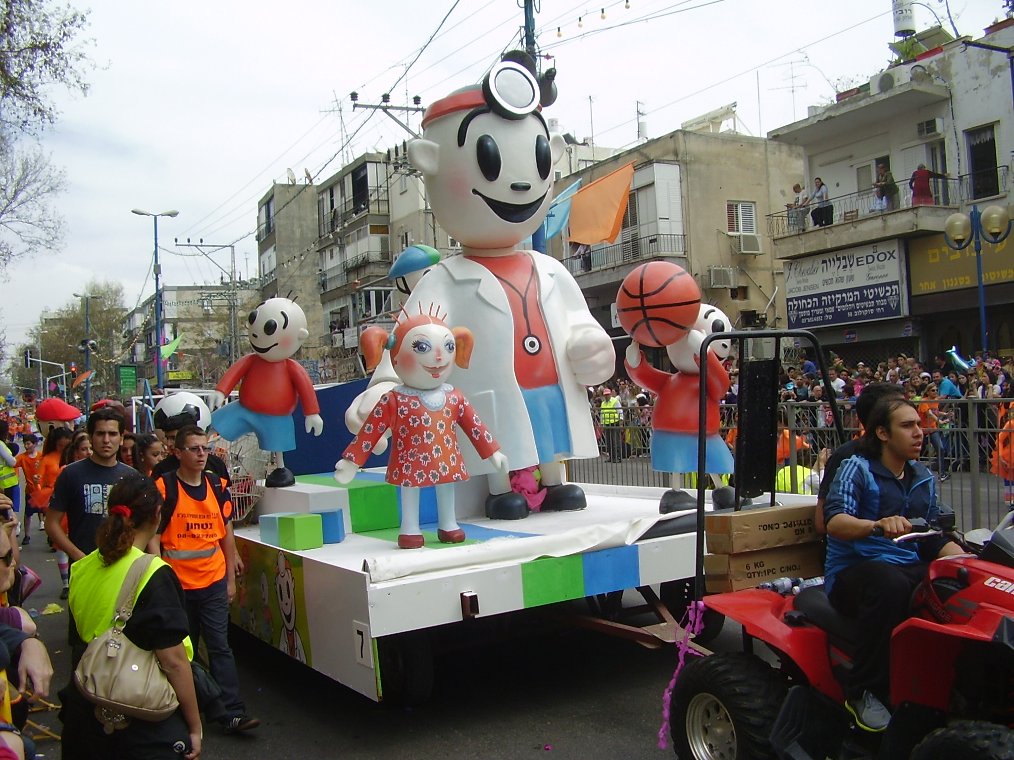 purim festival in holon 2011